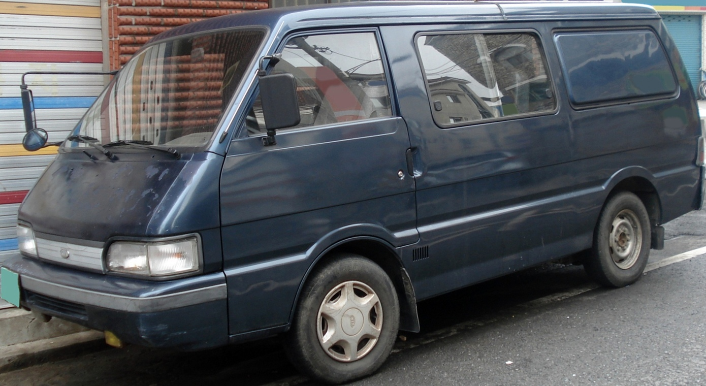 Kia Hi Besta